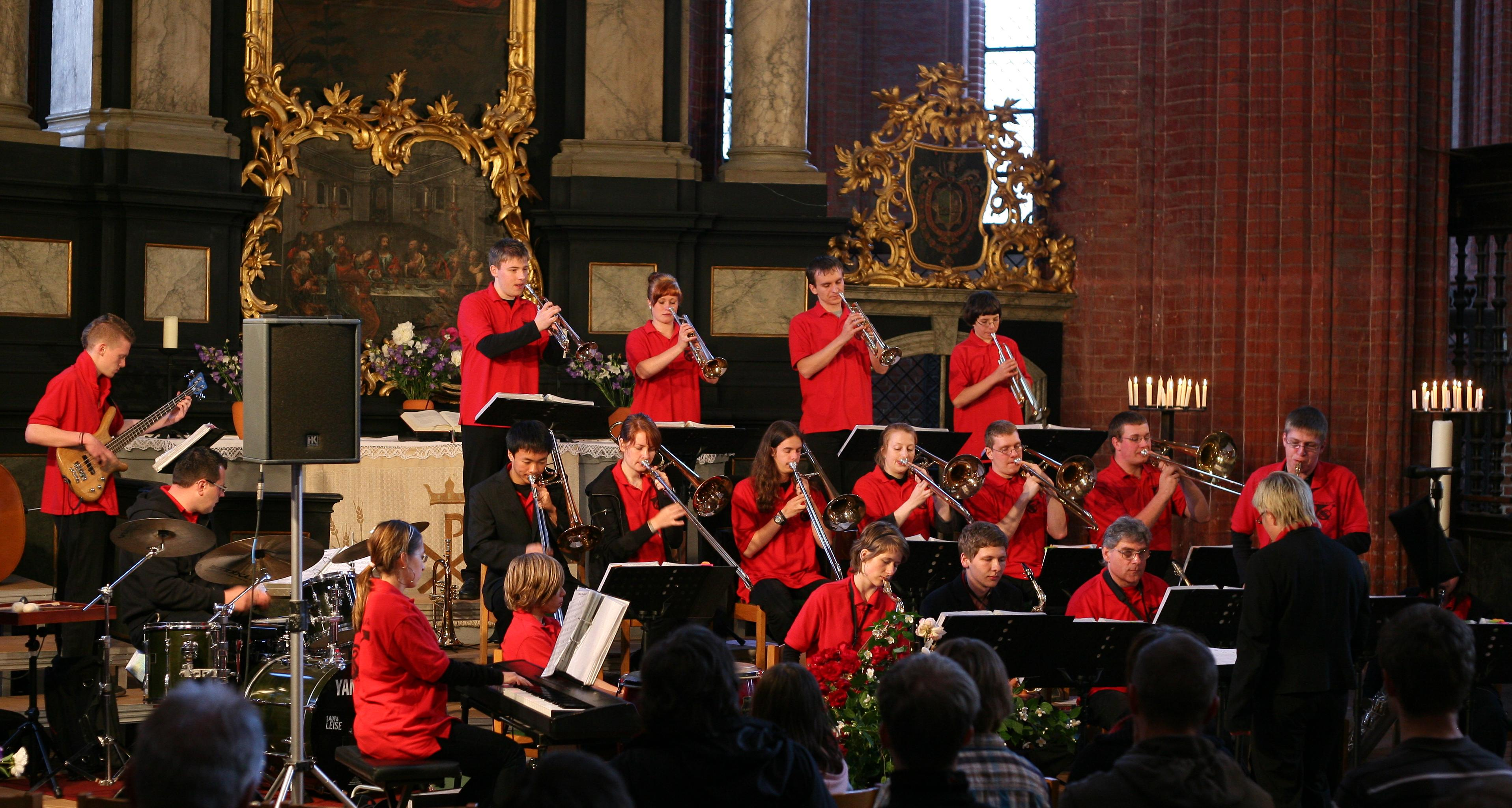 Bigband Wismar